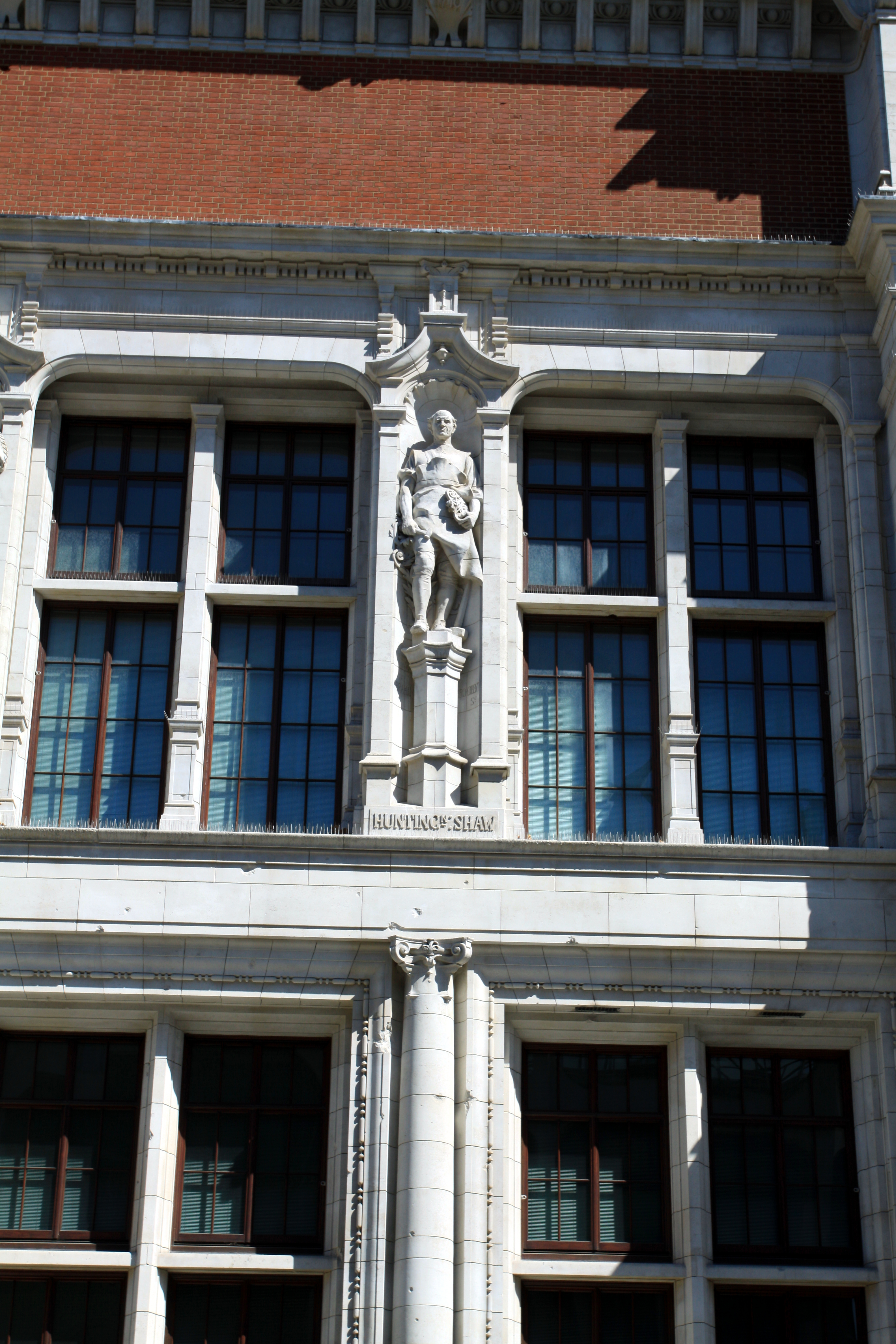 Statue of Huntington Shaw at the Victoria and Albert Museum in the Royal Borough of Kensington and Chelsea, London, Great Britain. The making of this file was supported by Wikimedia UK.